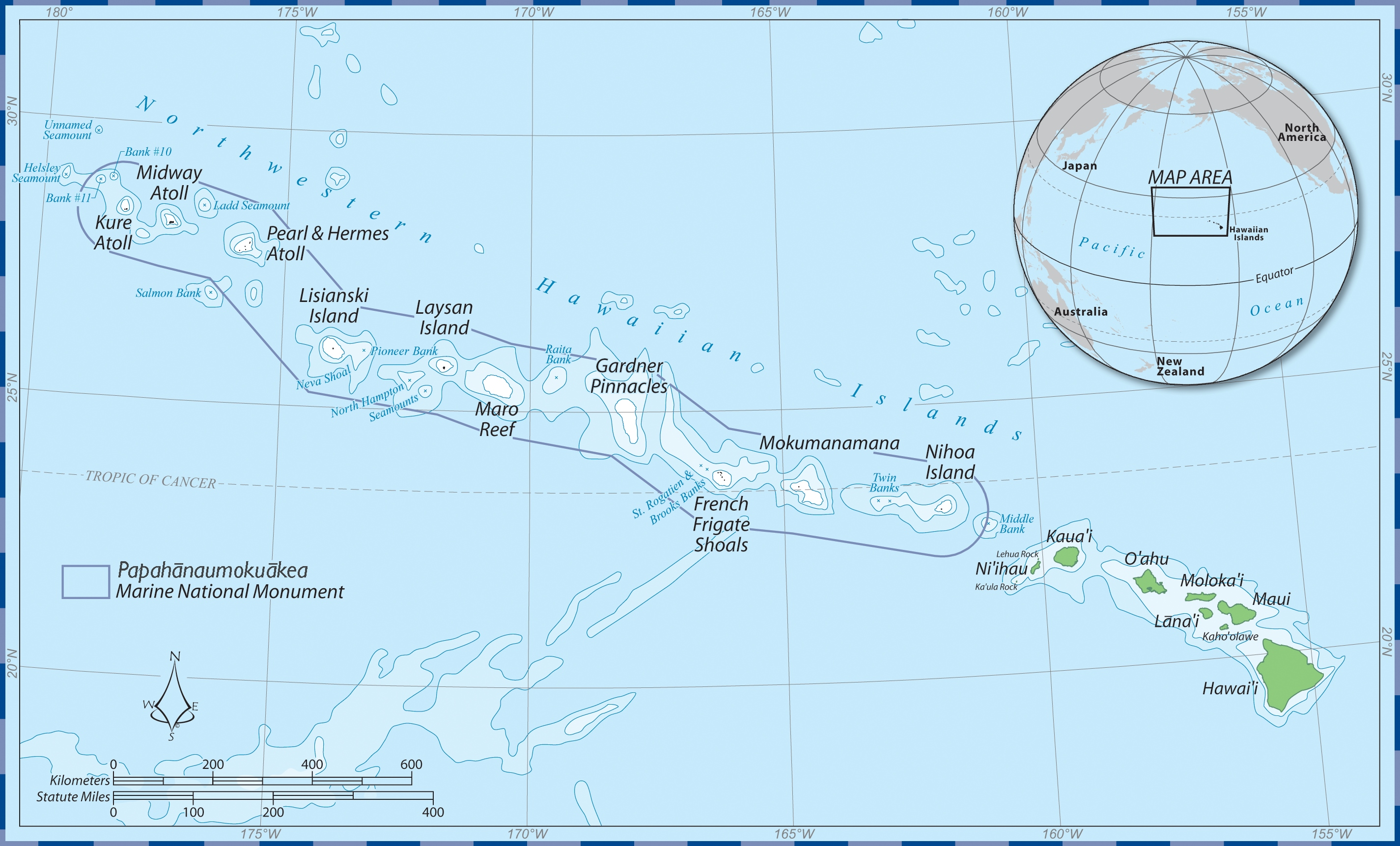 Boundaries of the Papahanaumokuakea Marine National Monument